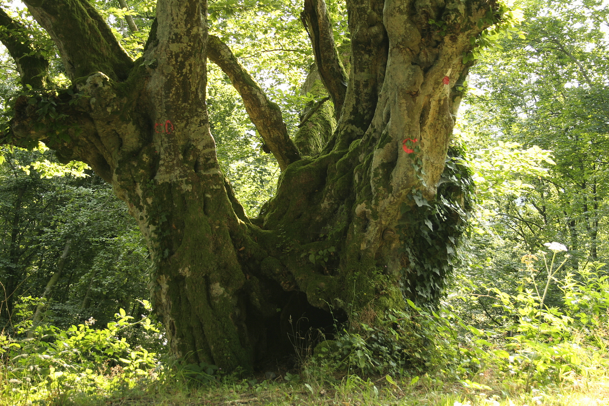 European Hornbeam.